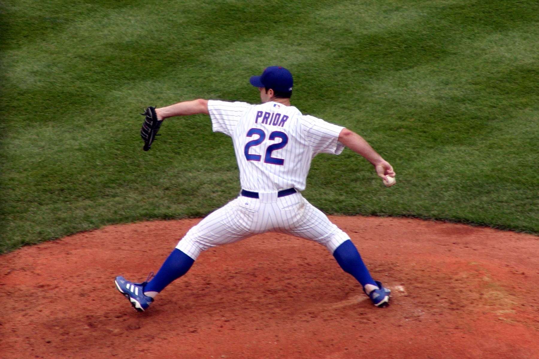 Mark Prior pitching for the Chicago Cubs at Wrigley Field on July 30, 2004 against the Philadelphia Phillies.